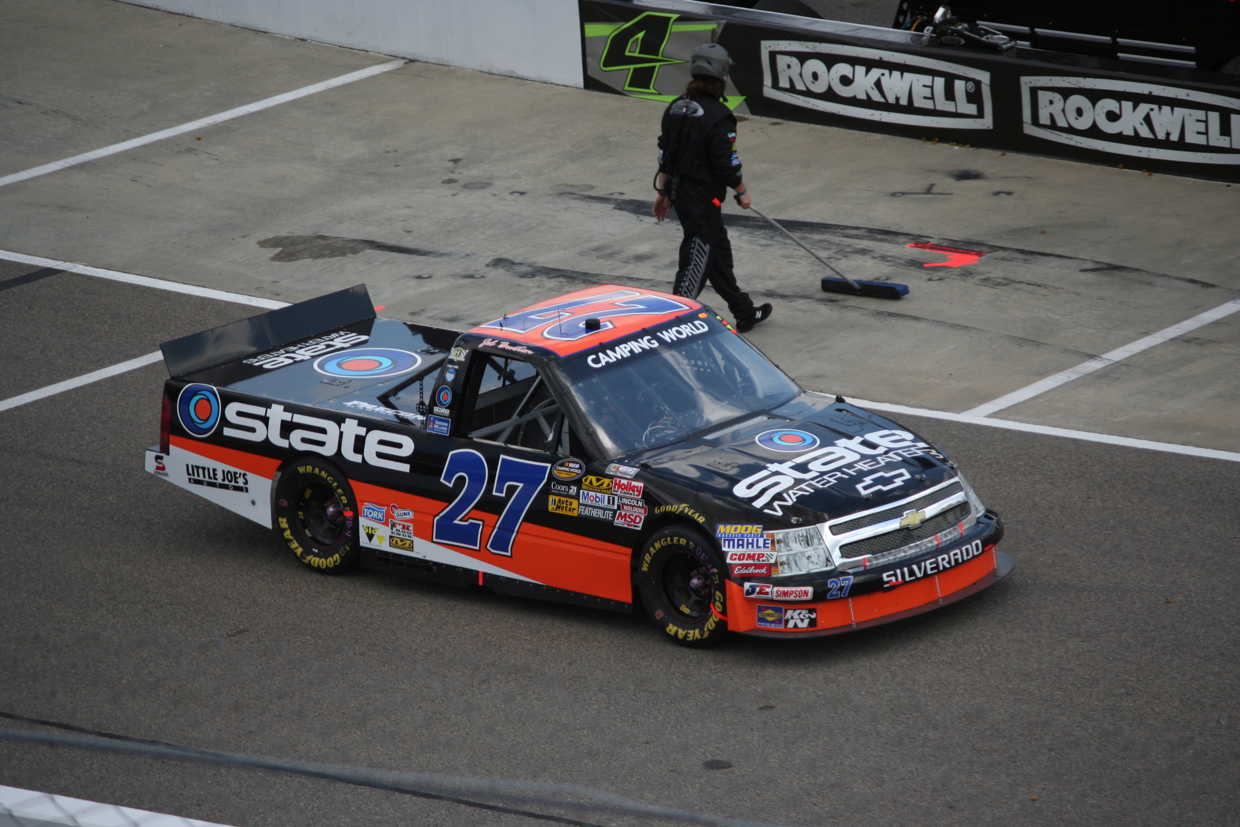 Jeb Burton drives the No. 27 State Water Heaters Chevrolet down pit road at Rockingham Speedway during the Good Sam Club Carolina 200 on April 15, 2012.